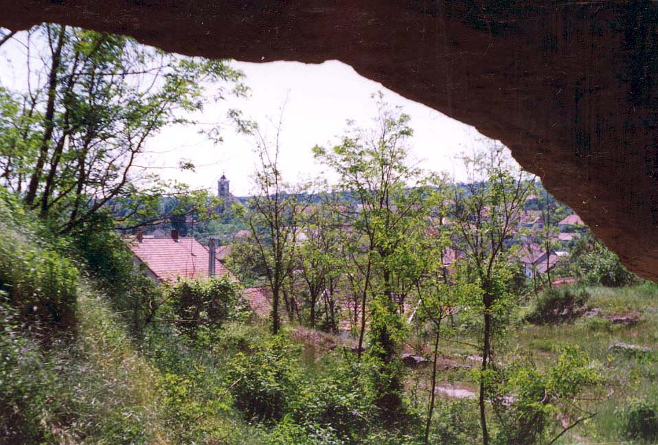 View from Pappenheim Cave.